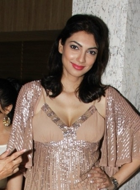 Former Miss World, Yukta Mookhey attending an event held at Mangiamo restaurant, Mumbai.jpg